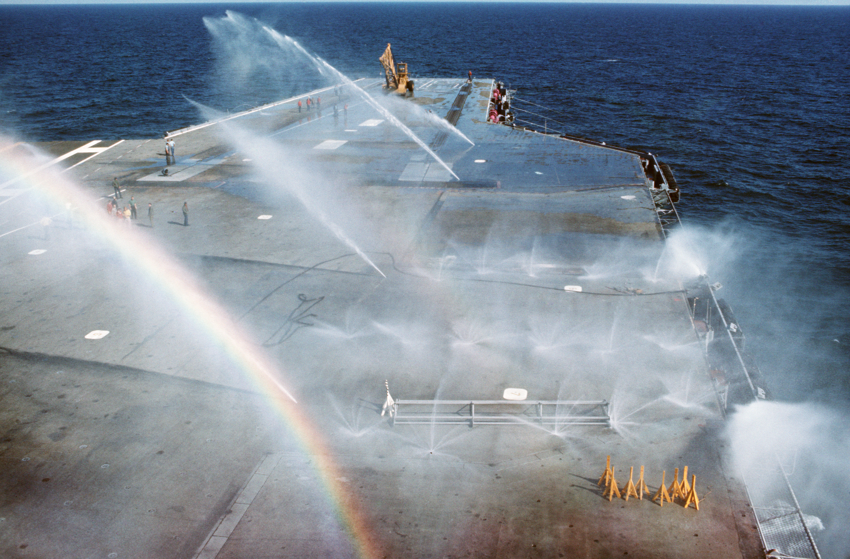 Sea water spray from the flight deck washdown system covers the deck of the U.S. Navy aircraft carrier USS America (CV-66) in 1976.